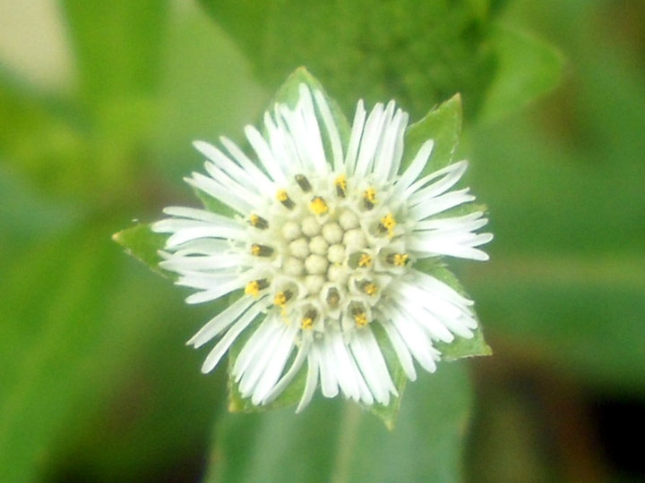 Kayyoni(Eclipta alba)